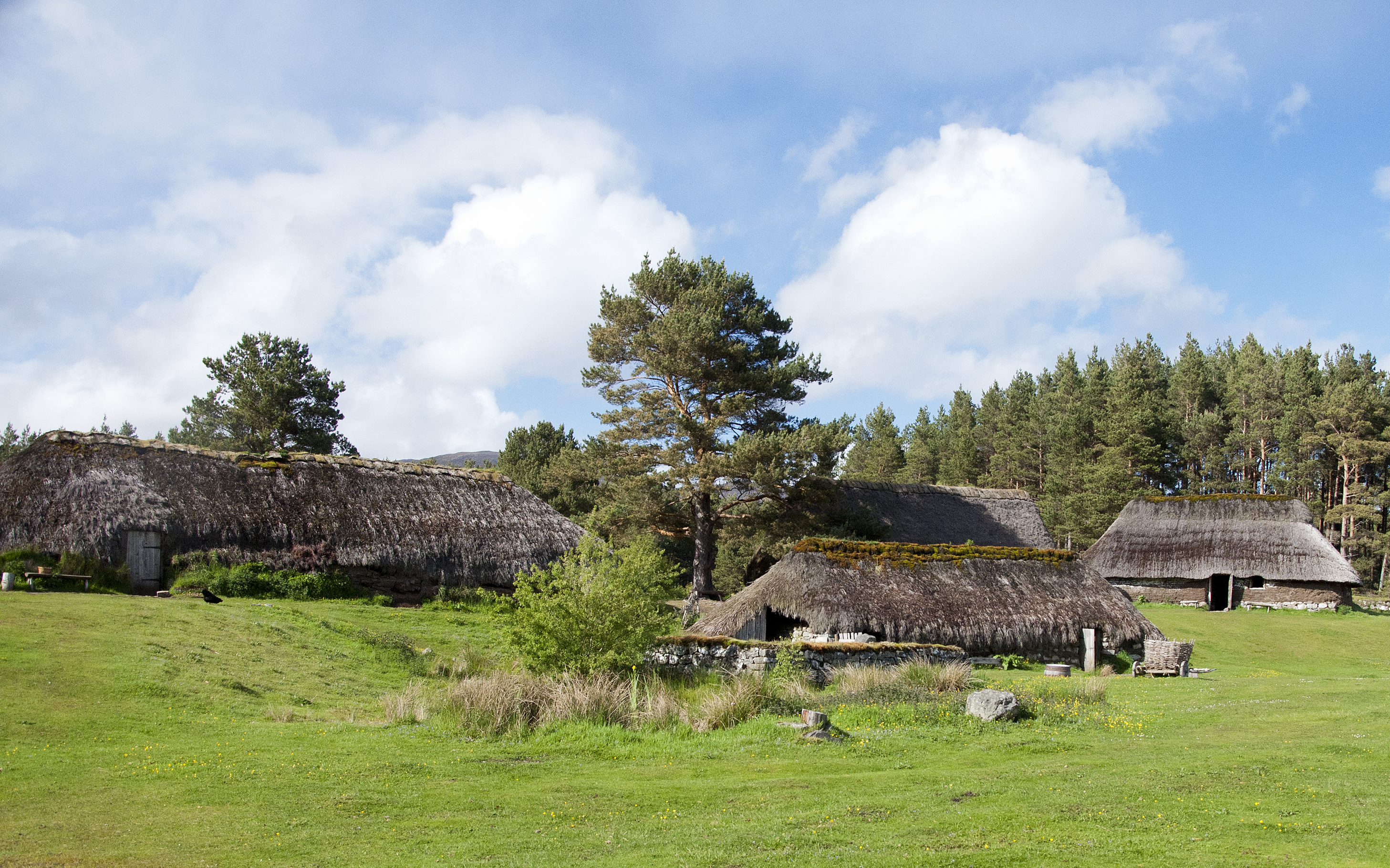 Baile Gean Township - Highland Folk Museum - Newtonmore, Scotland